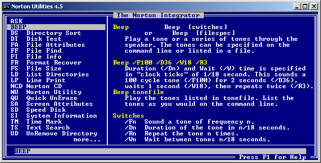 Screenshot of Norton Utilities 4.5